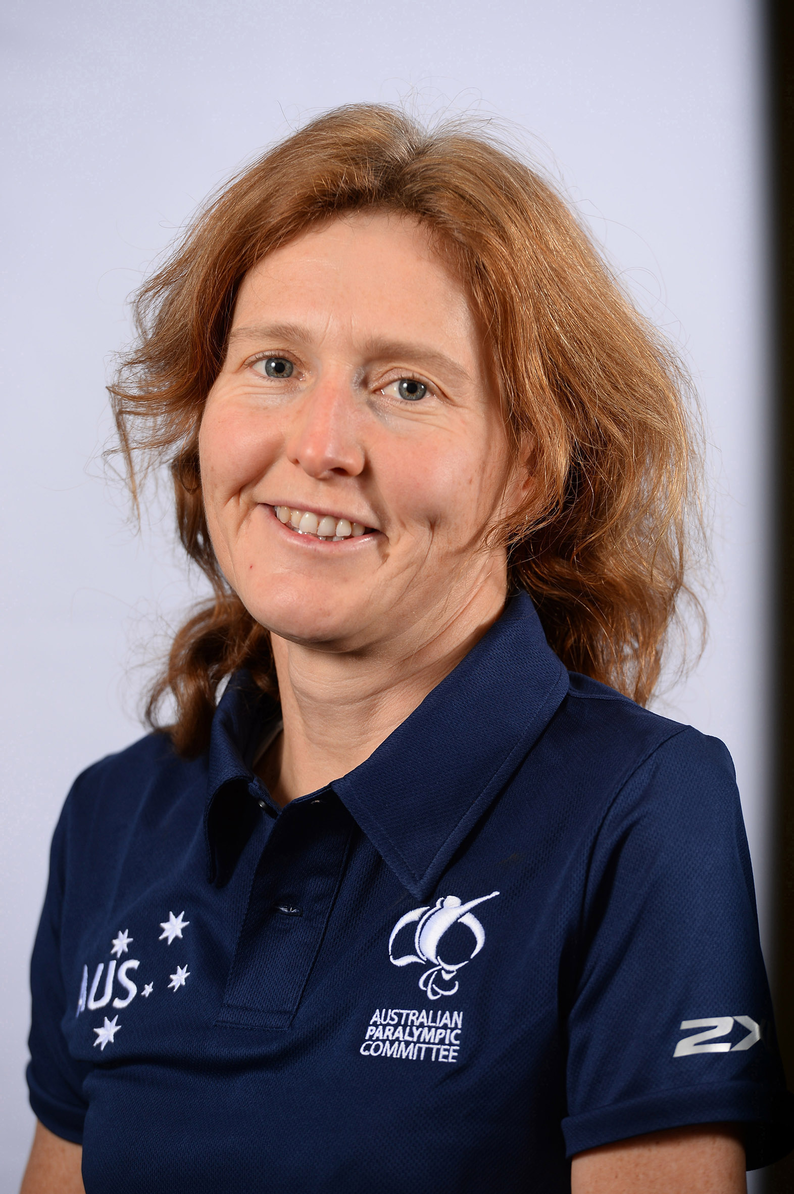 Portrait photograph of Clare McLean taken at team processing session for shadow members of 2016 Australian Paralympic team